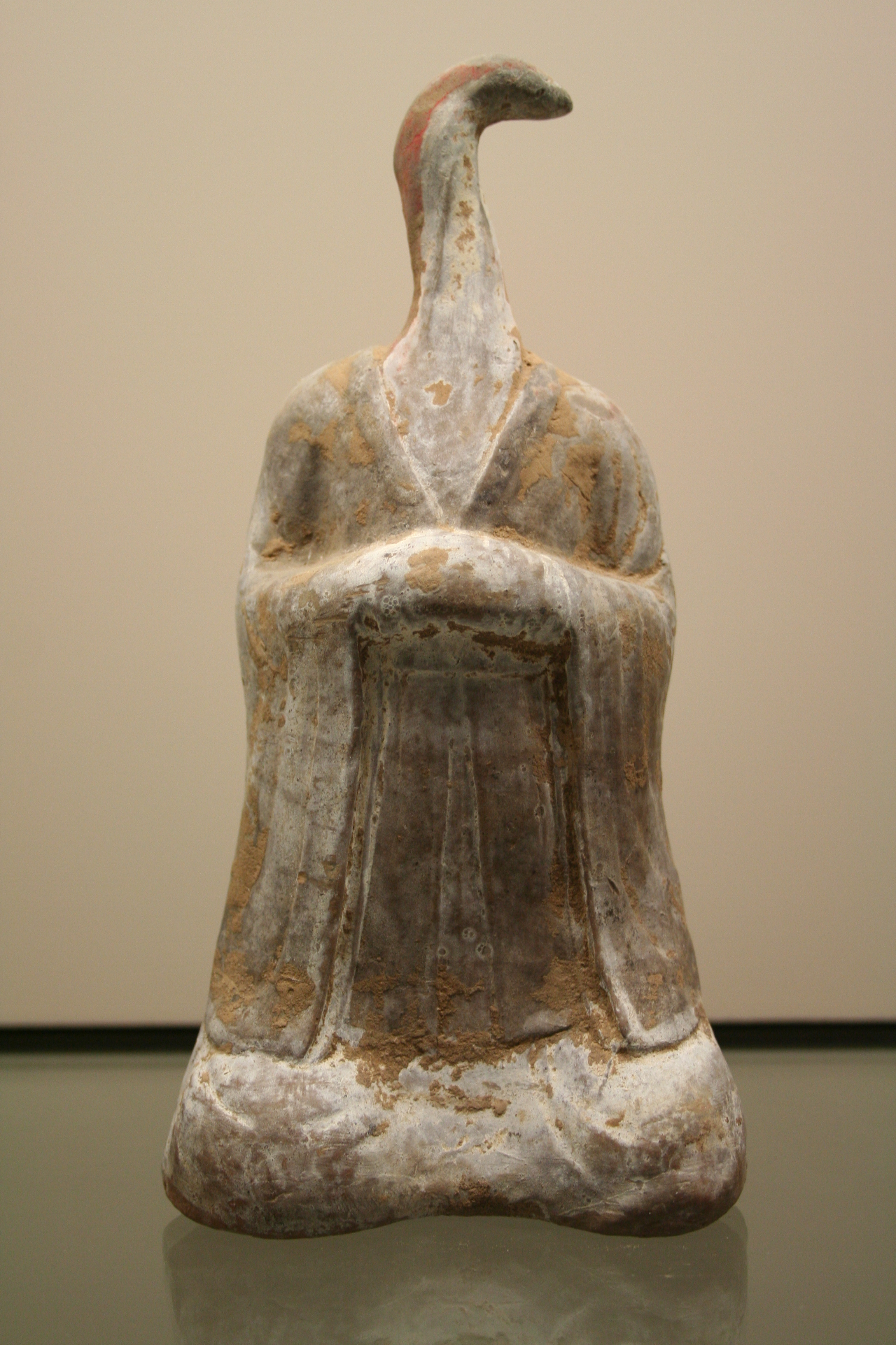 Cernuschi Museum, Paris, France.